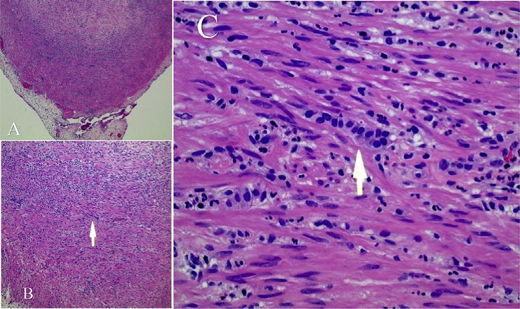 Microscopic examination of a carcinoid of the appendix tip. 40 x. H&E stain. Arrow points out cluster of neuroendocrine cells. There are also inflammatory cells consistent with acute appendicitis.